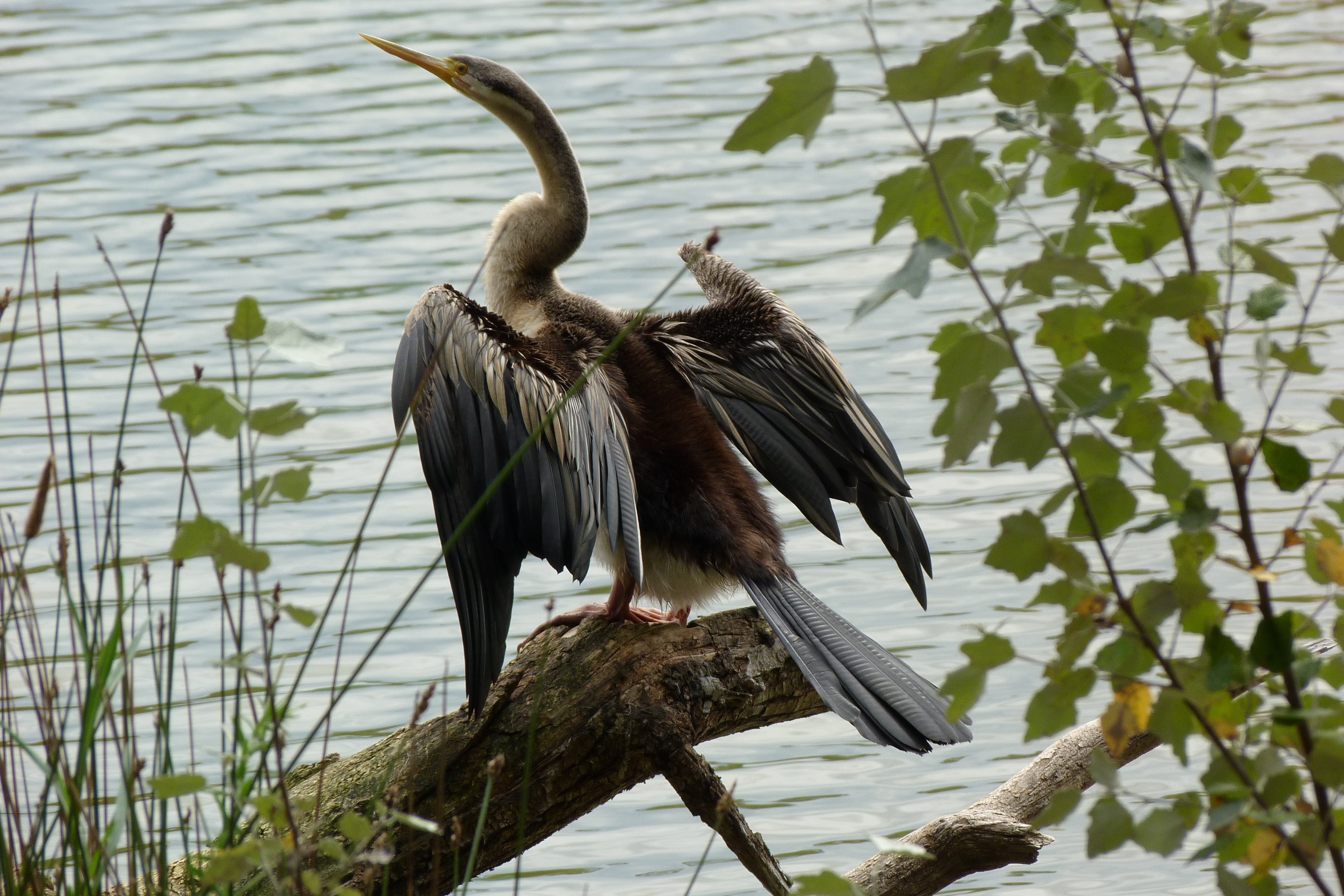 Anhinga novaehollandiae (Gould, 1847), Australasian Darter, Lake Ginninderra, Belconnen, ACT, 25 December 2011